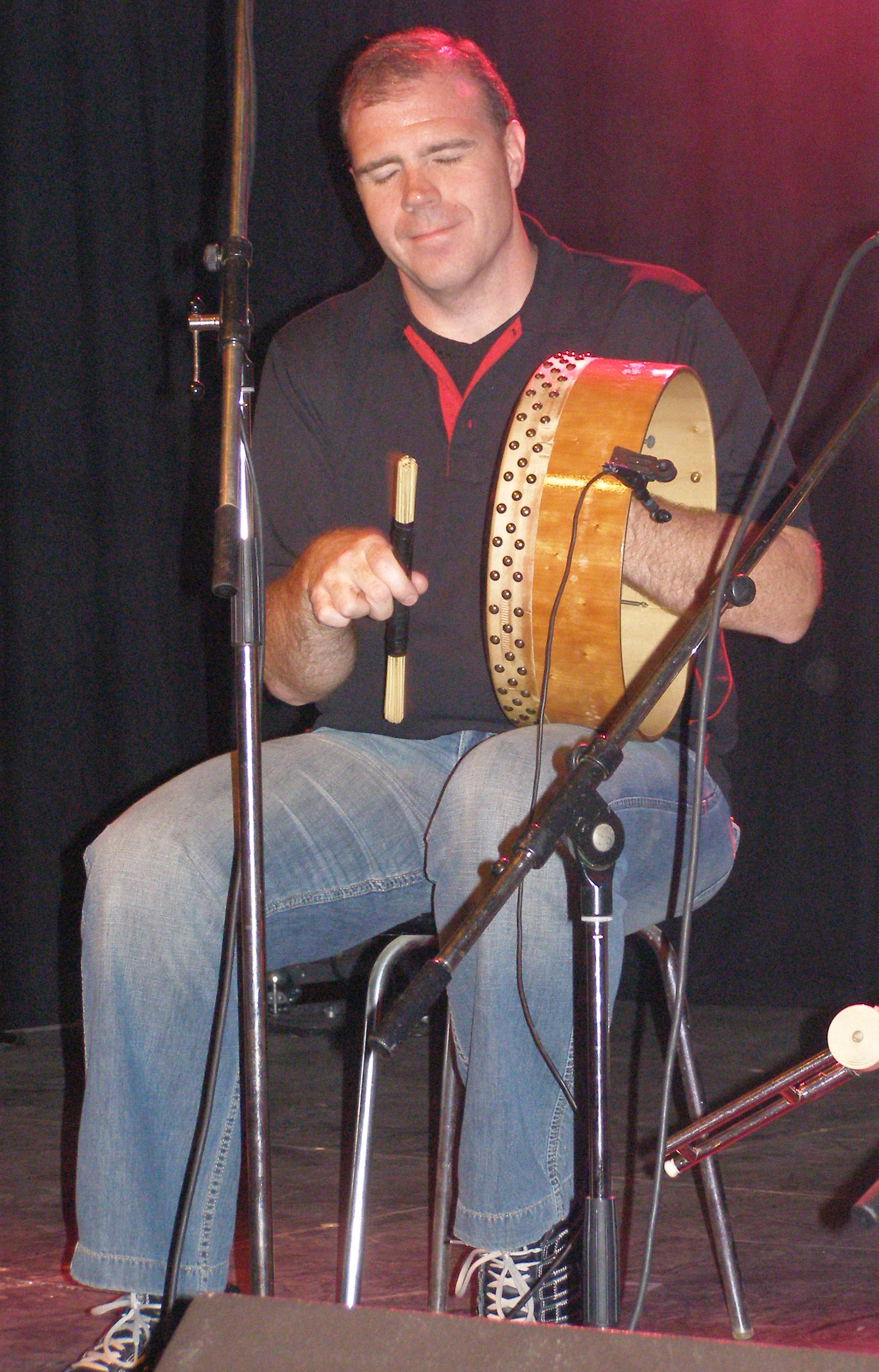 Kevin Crawford playing the bodhrán during a Lúnasa performance at the "Danse Avec Le Loup" celtic music festival in Corbeyrier, Switzerland. Taken by Storkk.